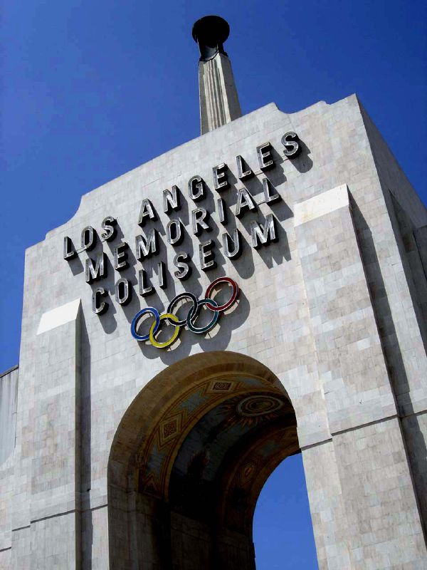 Front gate of the Los Angeles Memorial Coliseum, Los Angeles, CA, USA